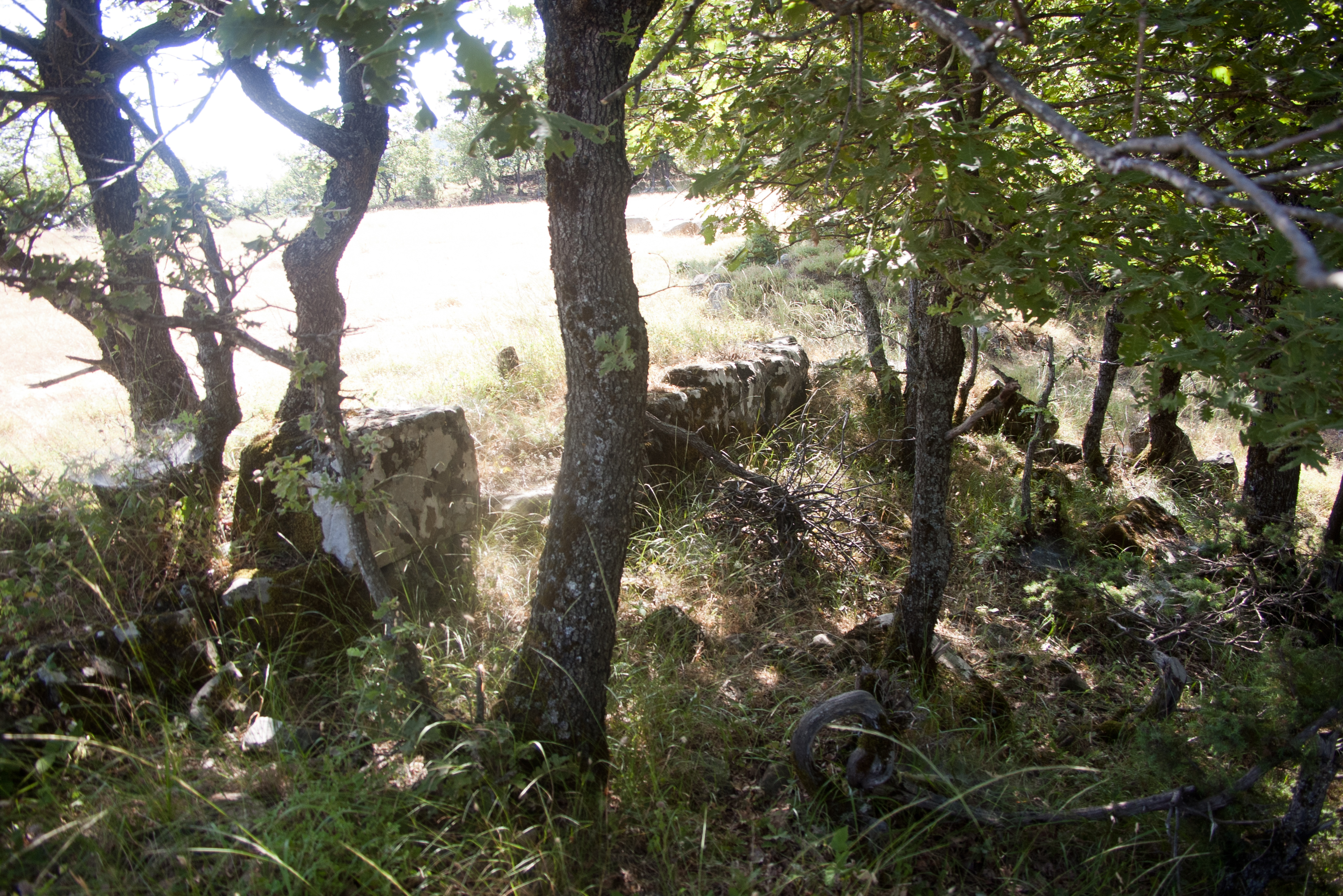 Remains of fortifications at Ano Fteri, Makrakomi, Central Greece.